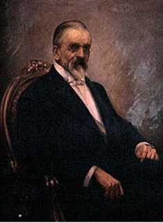 Oil painting of José Manuel Marroquín, President of Colombia from 1900 to 1904.